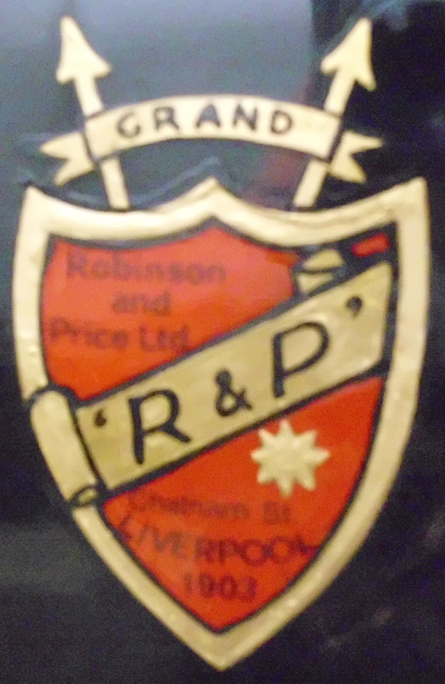 Emblem Robinson & Price